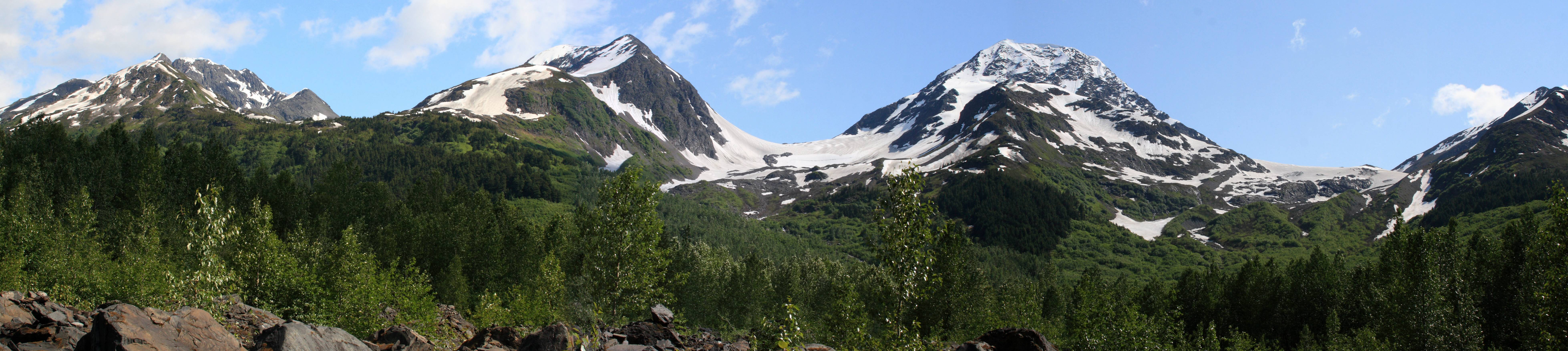 We took this hike into the Twentymile Creek wilderness in June 2009. The trail is part of the Upper Winner Creek trail. The trail head is behind the Alyeska Hotel near Girdwood, Alaska, about 30 miles south of Anchorage. The start of the trail is over boardwalk and nice wide path. At a trail junction a left turn takes you to the lovely Winner Creek Gorge while a right turn leads to the Upper Winner Creek trail which somewhere turns into the Twentymile Creek wilderness - there are no signs so we never knew where we were. The Upper Winner Creek trail is in good shape and fairly well marked and maintained, but there are several creeks to ford. We went in about 5 miles, entering a nice valley, the trail high above a creek, then crossing some rock fields, ending at a very nice waterfall. The trail continues to a pass but we were all satisfied and turned back. Very nice hike but this is prime bear country, so be prepared. Enjoy.